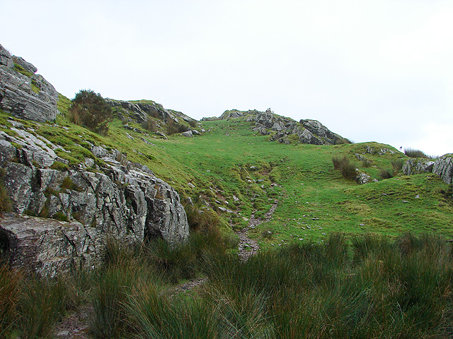 Public footpath across Bryn Glas